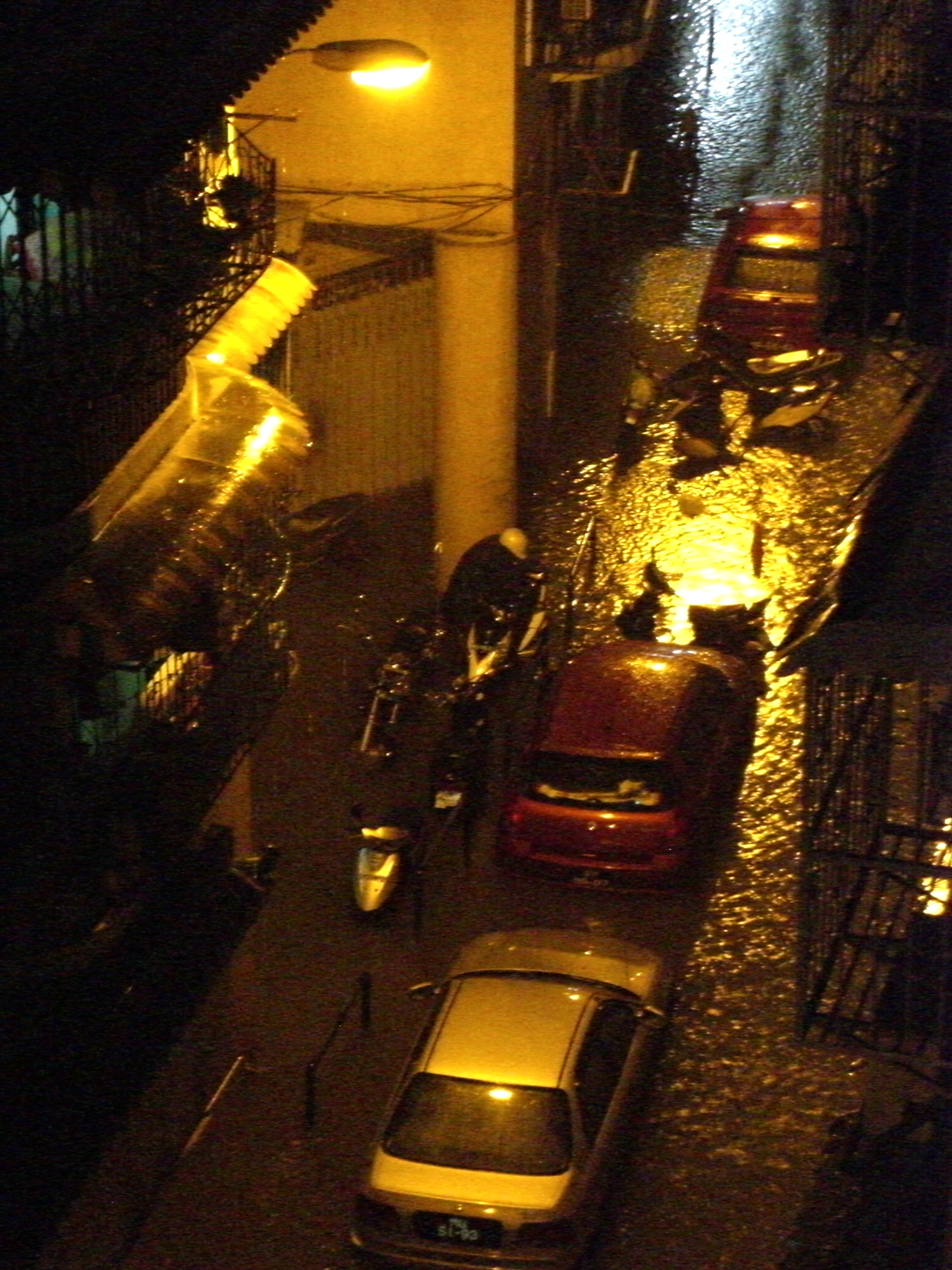 Macau street "Patio Do Piloto" during Typhoon Hagupit